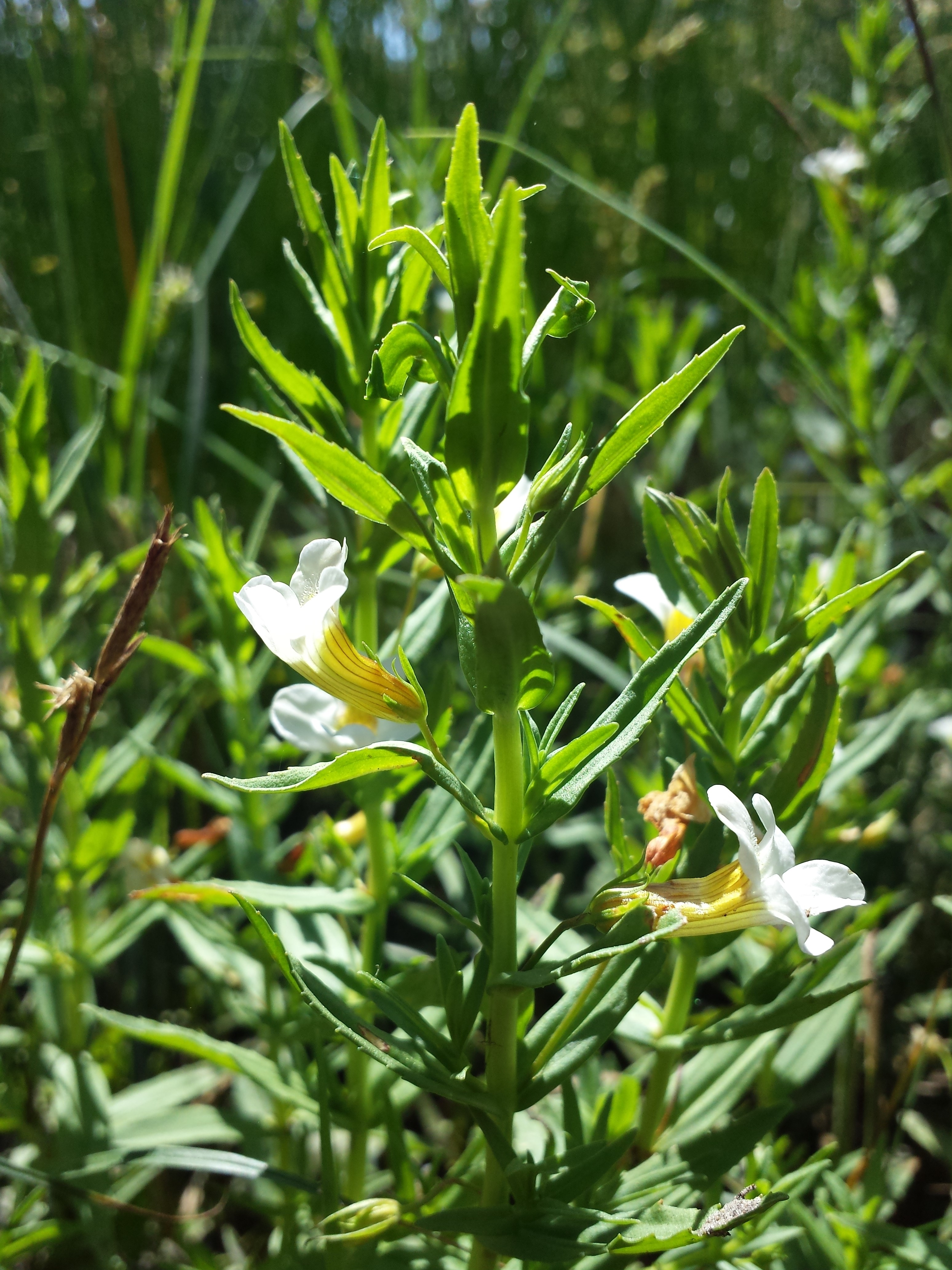 Habitus Taxonym: Gratiola officinalis ss Fischer et al. EfÖLS 2008 ISBN 978-3-85474-187-9; det. Gergely Király 2015-06-05 Location: wetlands near Darány, Somogy County, Hungary - ca. 130 m a.s.l. Habitat: temporarily flooded wood